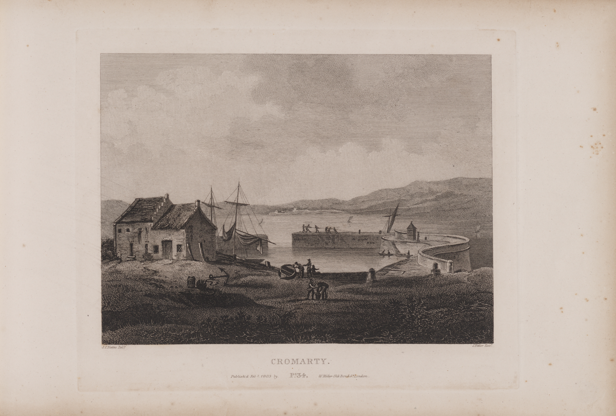 Plate XXXIV/b - John Claude Nattes made drawings of suitable scenes on the spot; etchings are by James Fittler.